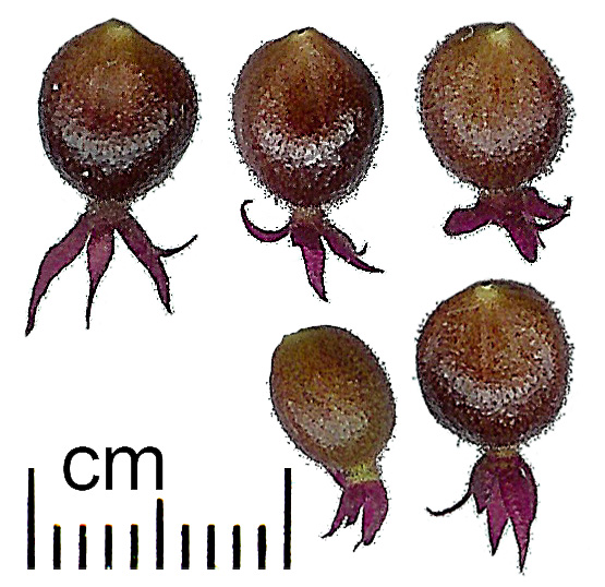 Leycesteria formosa fruits.